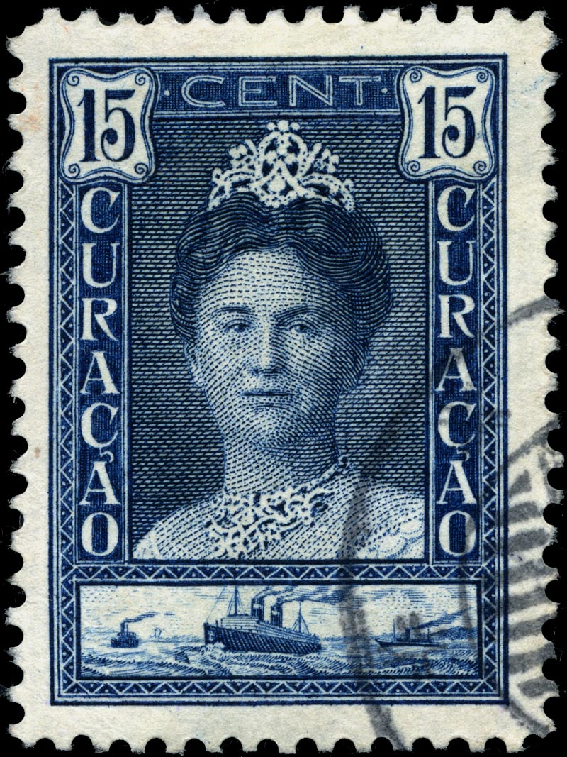 Netherlands Antilles 15c stamp of 1928